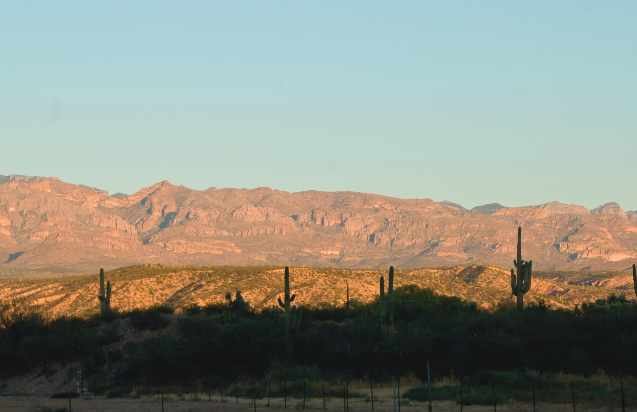 View towards the San Pedro River Valley and the Galiuro Mountians, south of San Manuel Arizona.